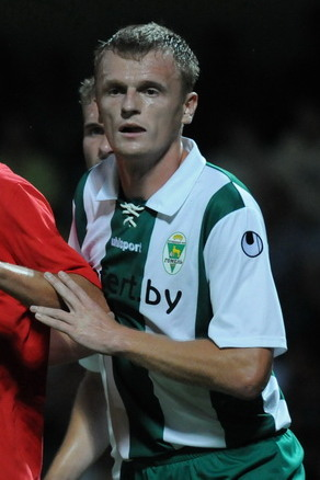 Belarusian football player Pavel Kirylchyk (Павел Кірыльчык) during 3rd round UEFA Europa League qualifier FC Gomel - Liverpool F.C.